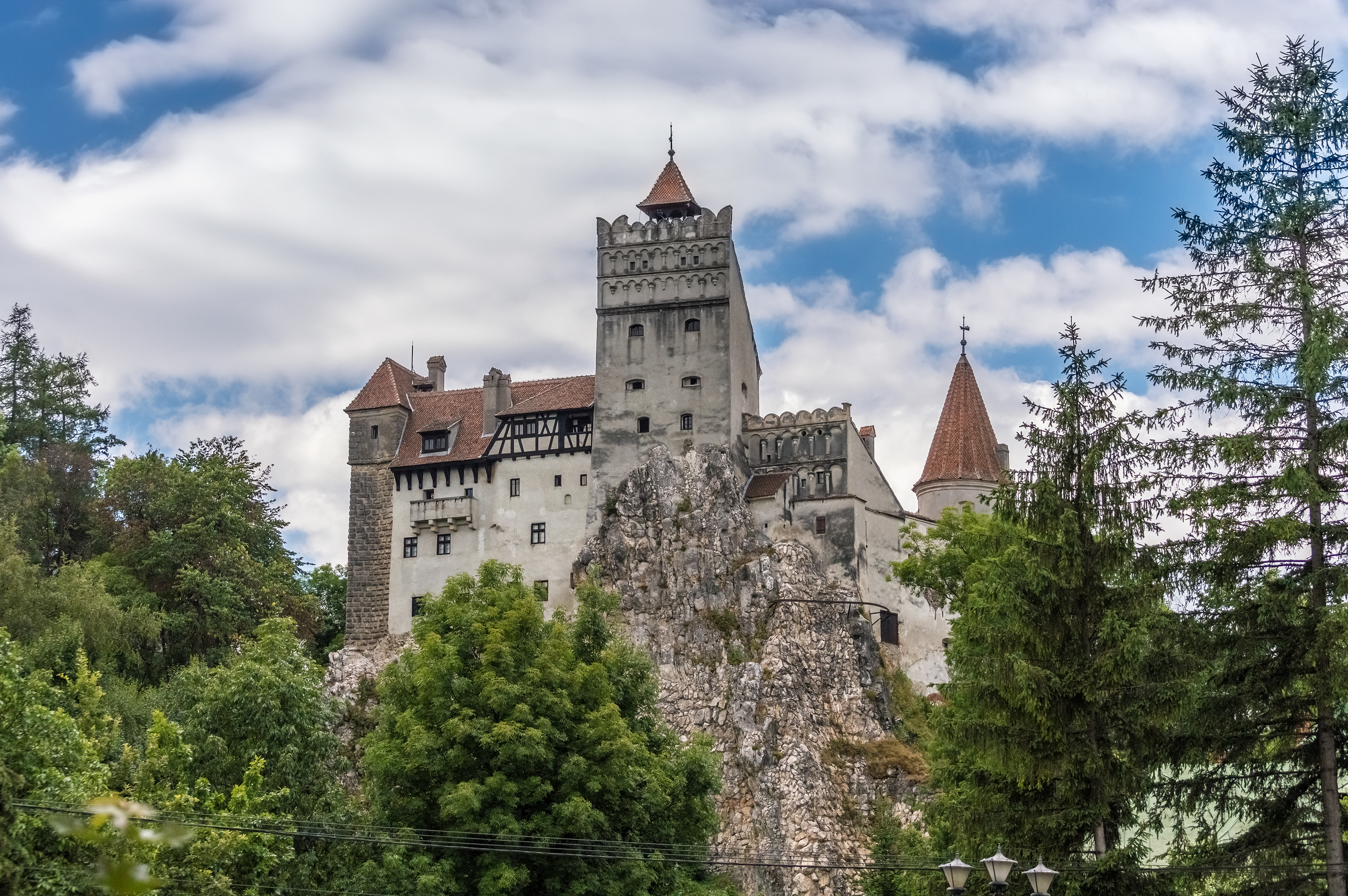 Bran Castle, also known as the Castle of Count Dracula. This photography is free to use, even for commercial purposes, but we require a link back to the source: Bran Castle photo callery